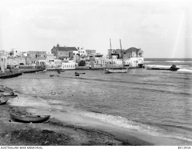 "A view of Tyre, showing buildings in the background. Boats are moored in the harbour and other boats are seen on the shore."